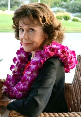 Actress and Entertainment Personality Caren Marsh Doll photographed on the occassion of her 95th birthday.